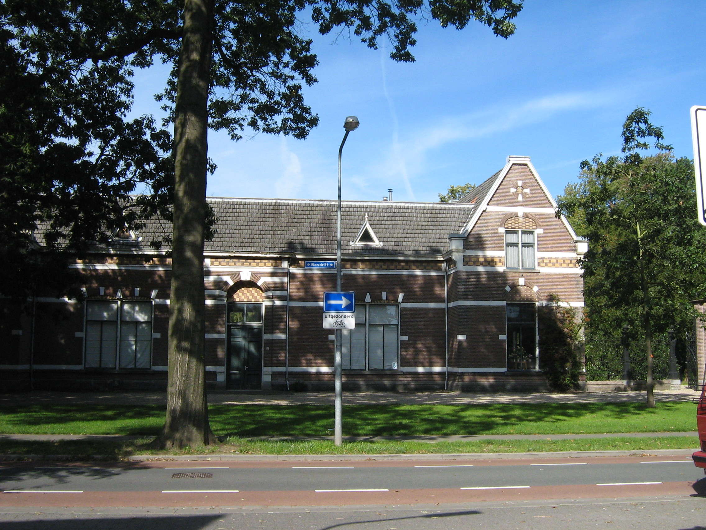 Reception building of the cemetery at 12 Bosdrift, Hilversum, the Netherlands. This is a national monument registered as object 522718.